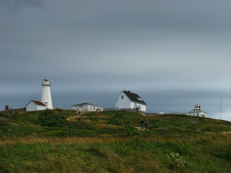 Cape Spear, Avalon Peninsula, Newfoundland, Canada. On the right, the historical lighthouse; on the left, the modern operating lighthouse.